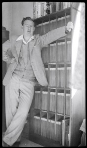 Australian collector and discographer John Edwards